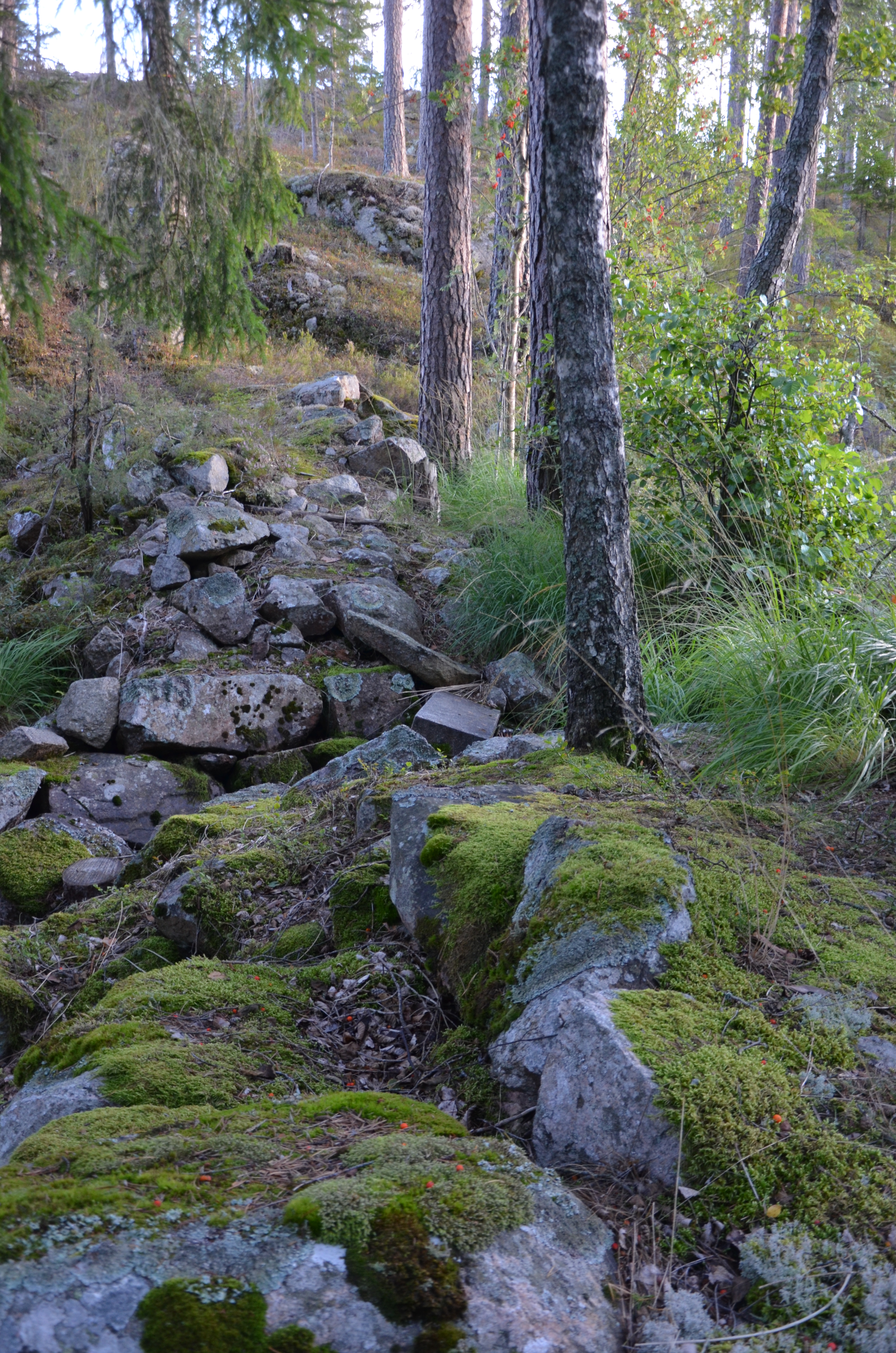 Rester av en medeltida hyttdamm vid Hyttjärn i Norbergs kommun